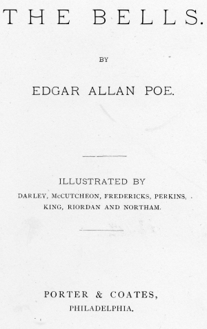 Title page image for printed edition of "The Bells" by Edgar Allan Poe